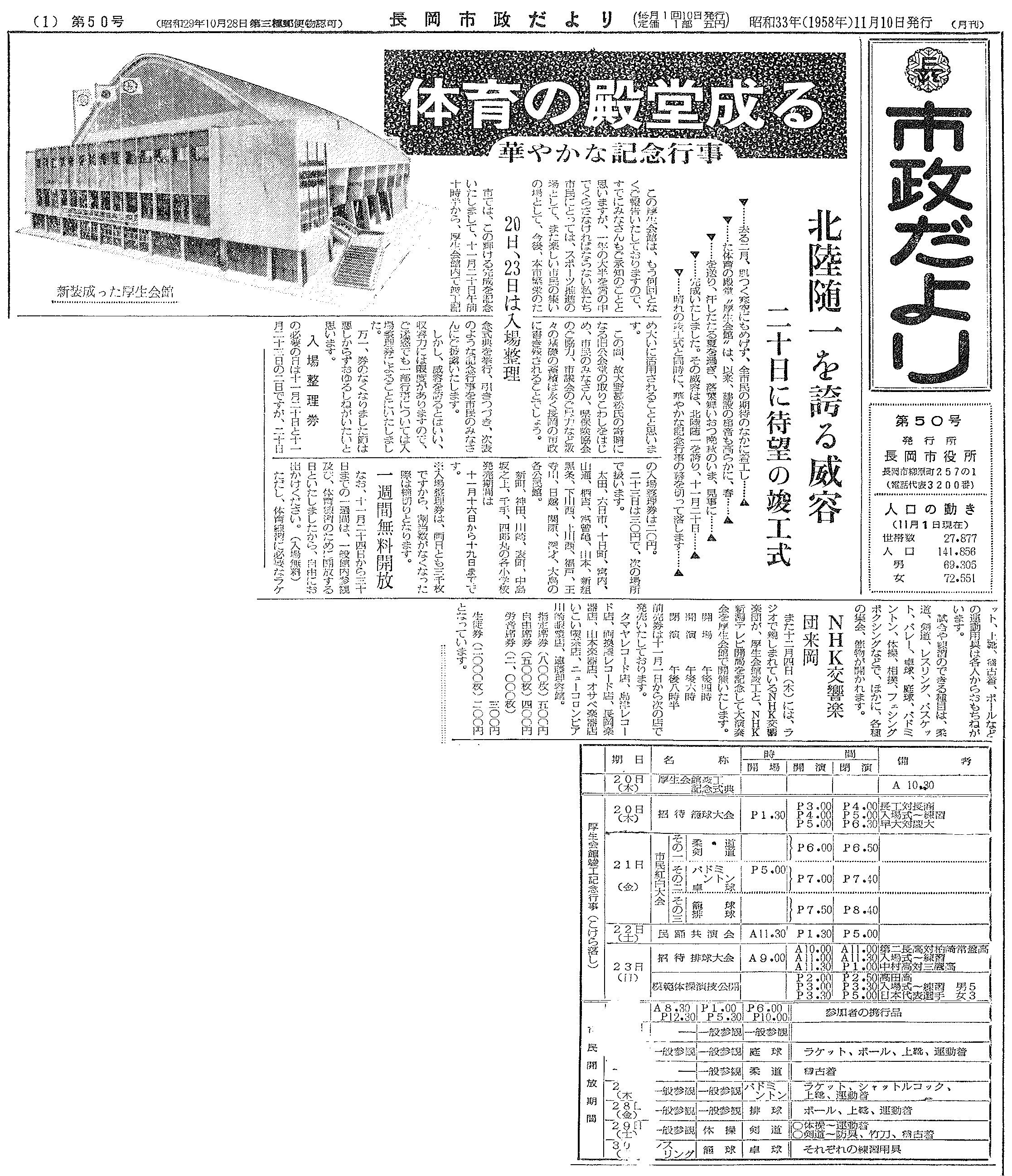 News about completion of the Nagaoka City Kōsei Kaikan, "Nagaoka City Municipal Administration News" 1958-11